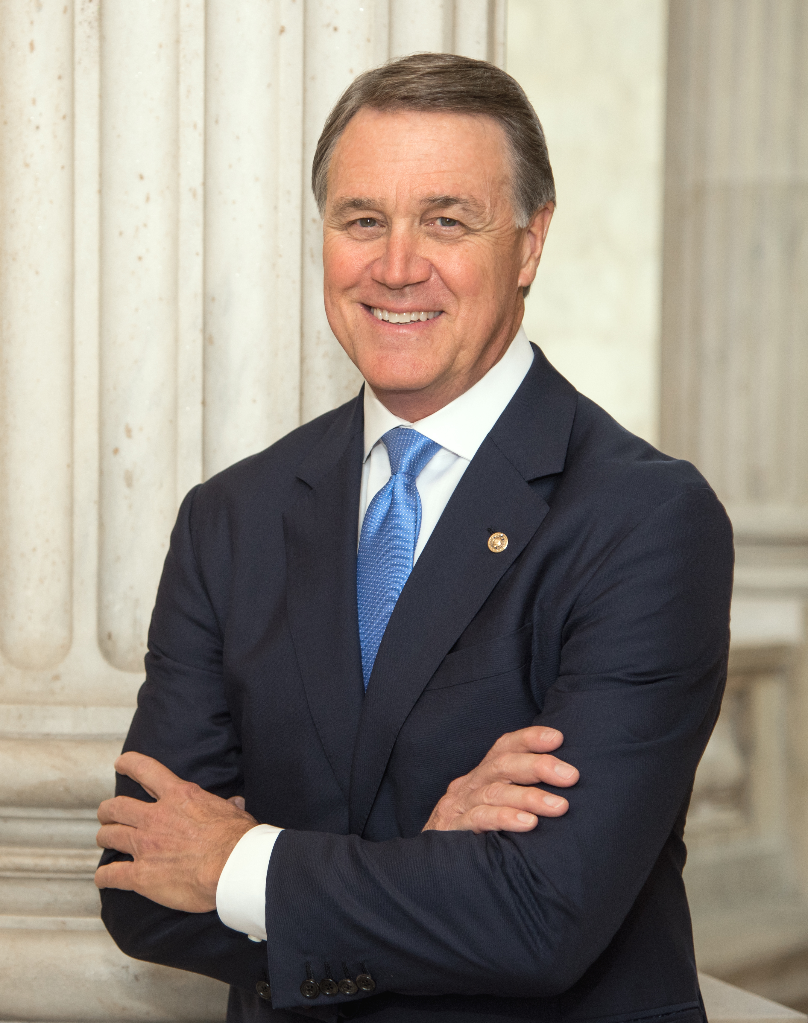 Official portrait of United States Senator David Perdue of Georgia